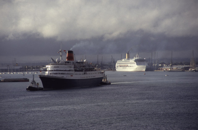 Caronia departing Southampton